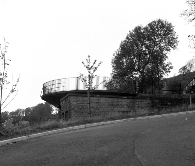 Former trolleybus turntable (2)